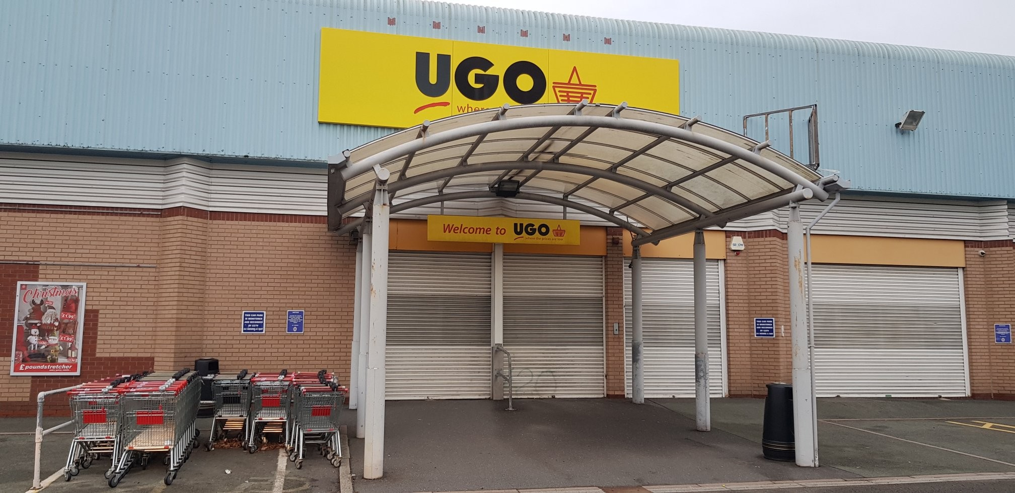 A former UGO store in Nuneaton, Warwickshire.